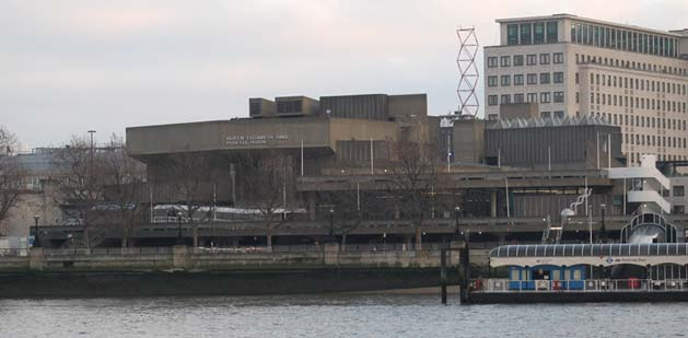 Queen Elizabeth Hall from Embankment